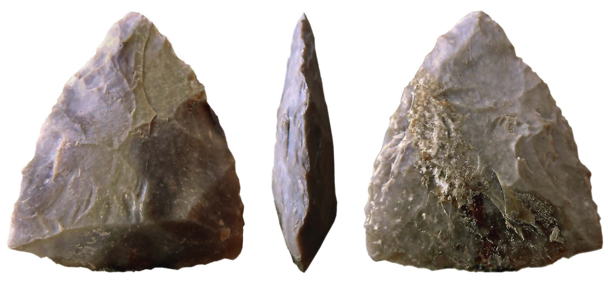 Triangular shaped hand axe (replica)